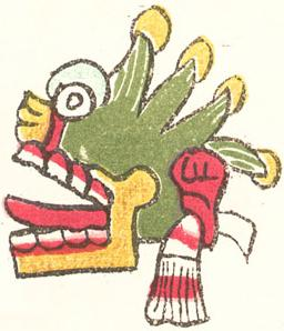 The Aztec day sign malinalli (grass).